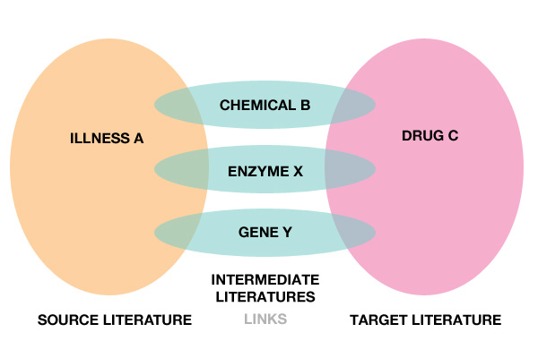 A diagram of an example of "Swanson linking", as put forward by Don R. Swanson and Neil R. Smalheiser in 1997. Inspired by a sample Venn diagram in their paper — see: Swanson, DR. & Smalheiser, N.R (1997). An interactive system for finding complementary literatures: a stimulus to scientific discovery. Artifical Intelligence 91:183-203.